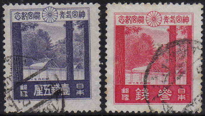 58th rebuilding of Ise Shrine in 1929.